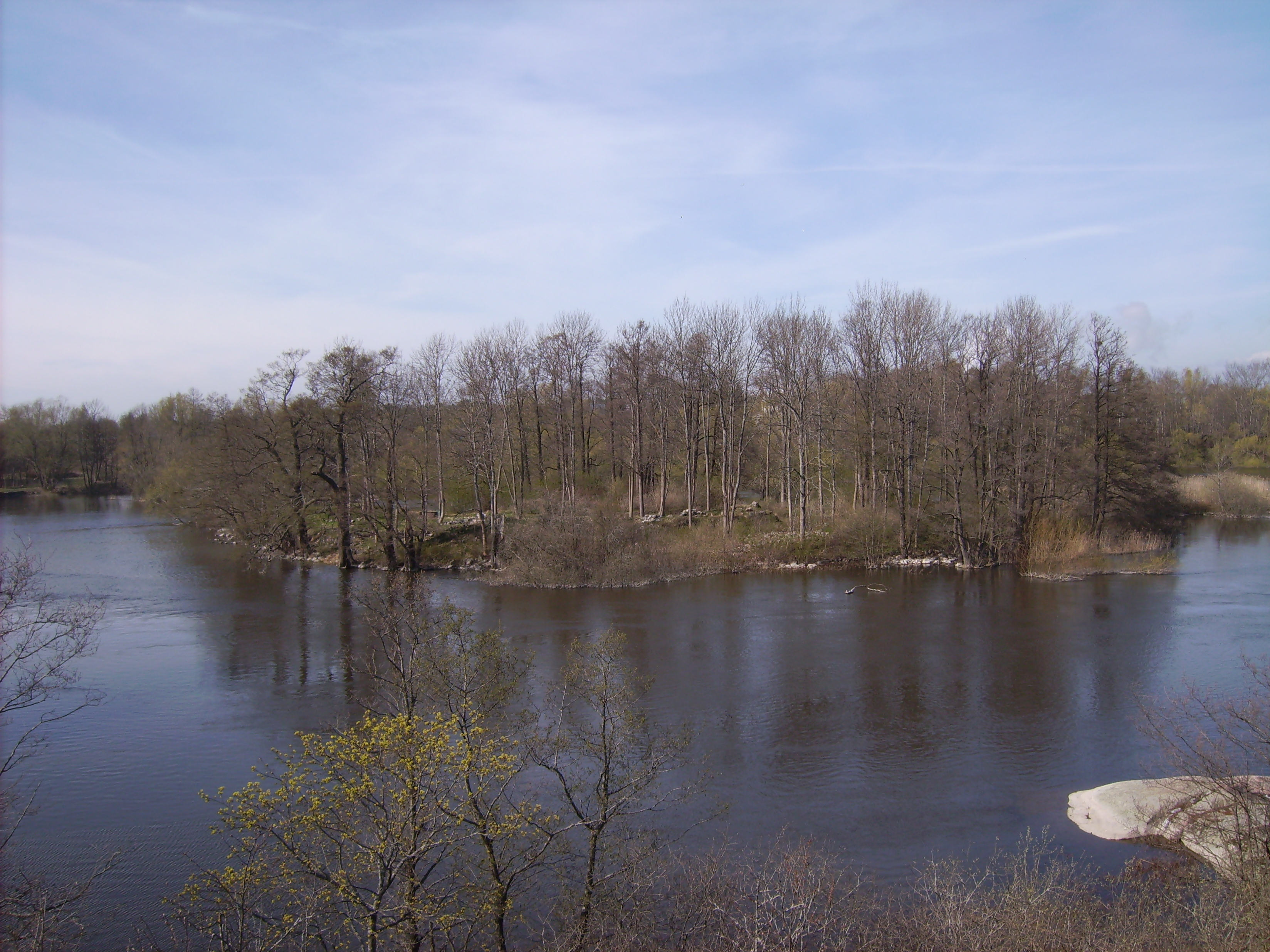 Photo by Harri Blomberg.